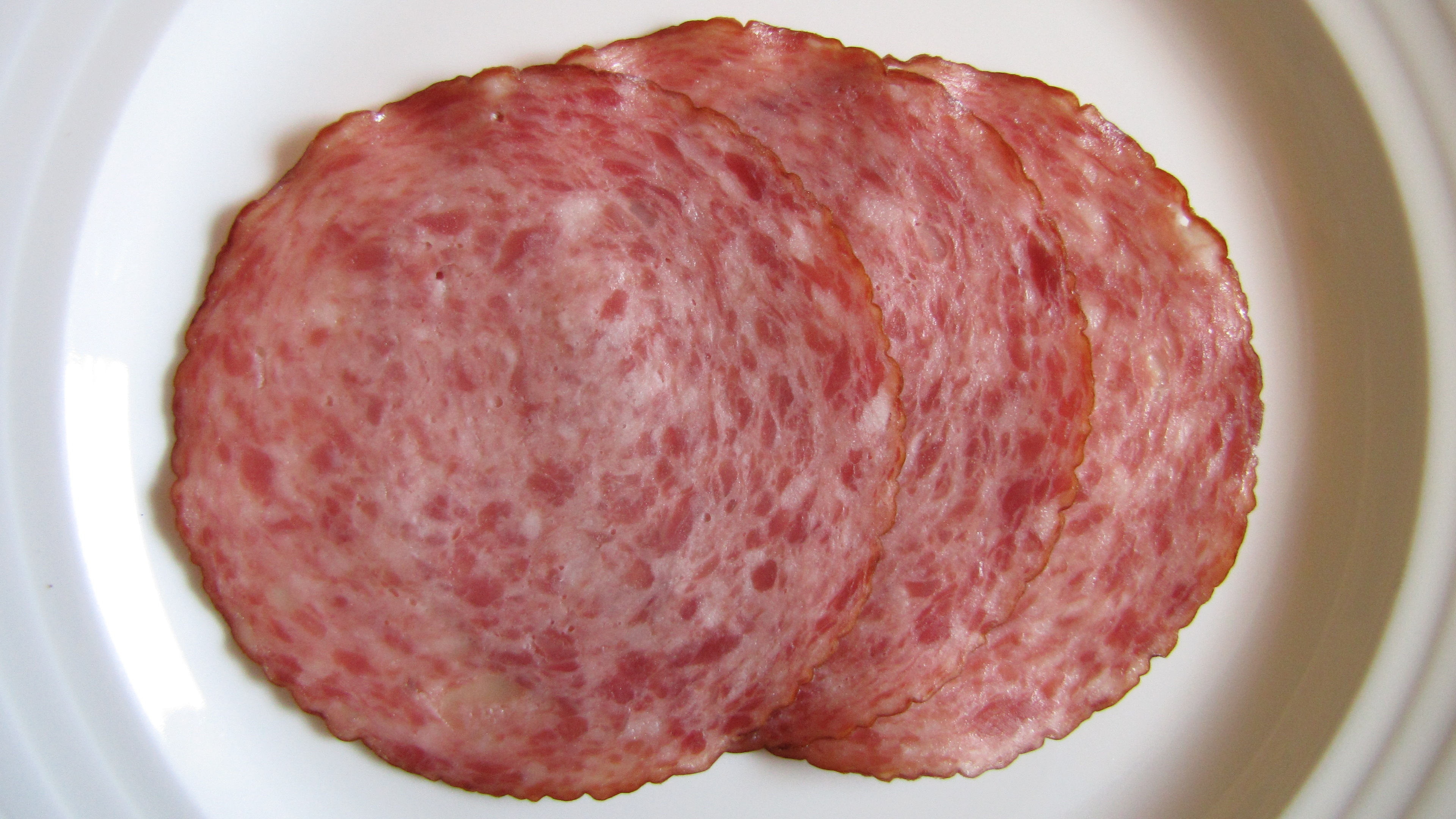 Three slices Wiener Wurst. Sold under the name "Tiroler-Salami".